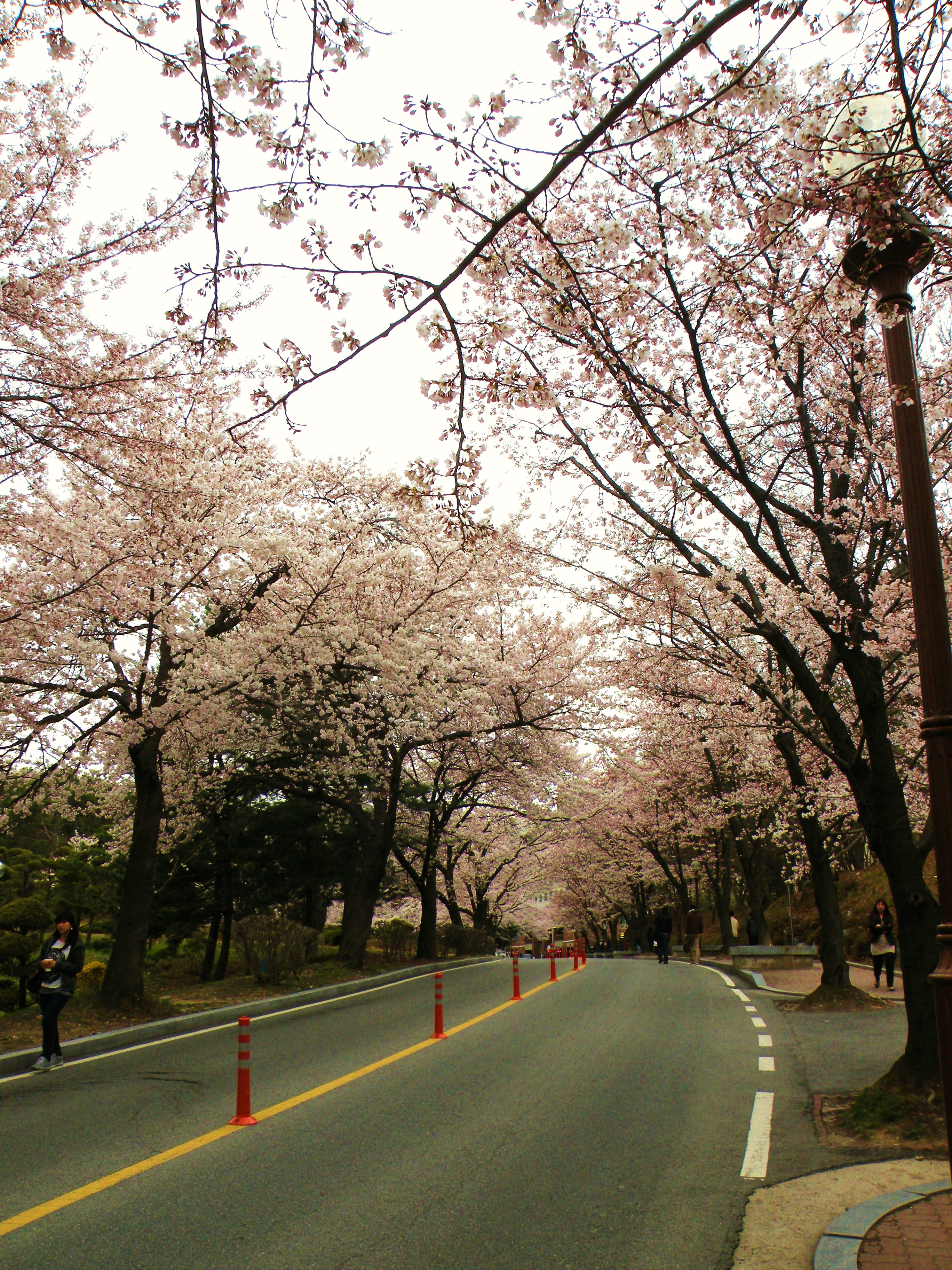 Cherry Blossom Festival, Chungnam National University, Daejeon, South Korea